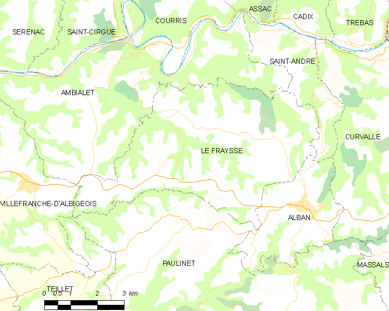 Map of French municipality Le Fraysse